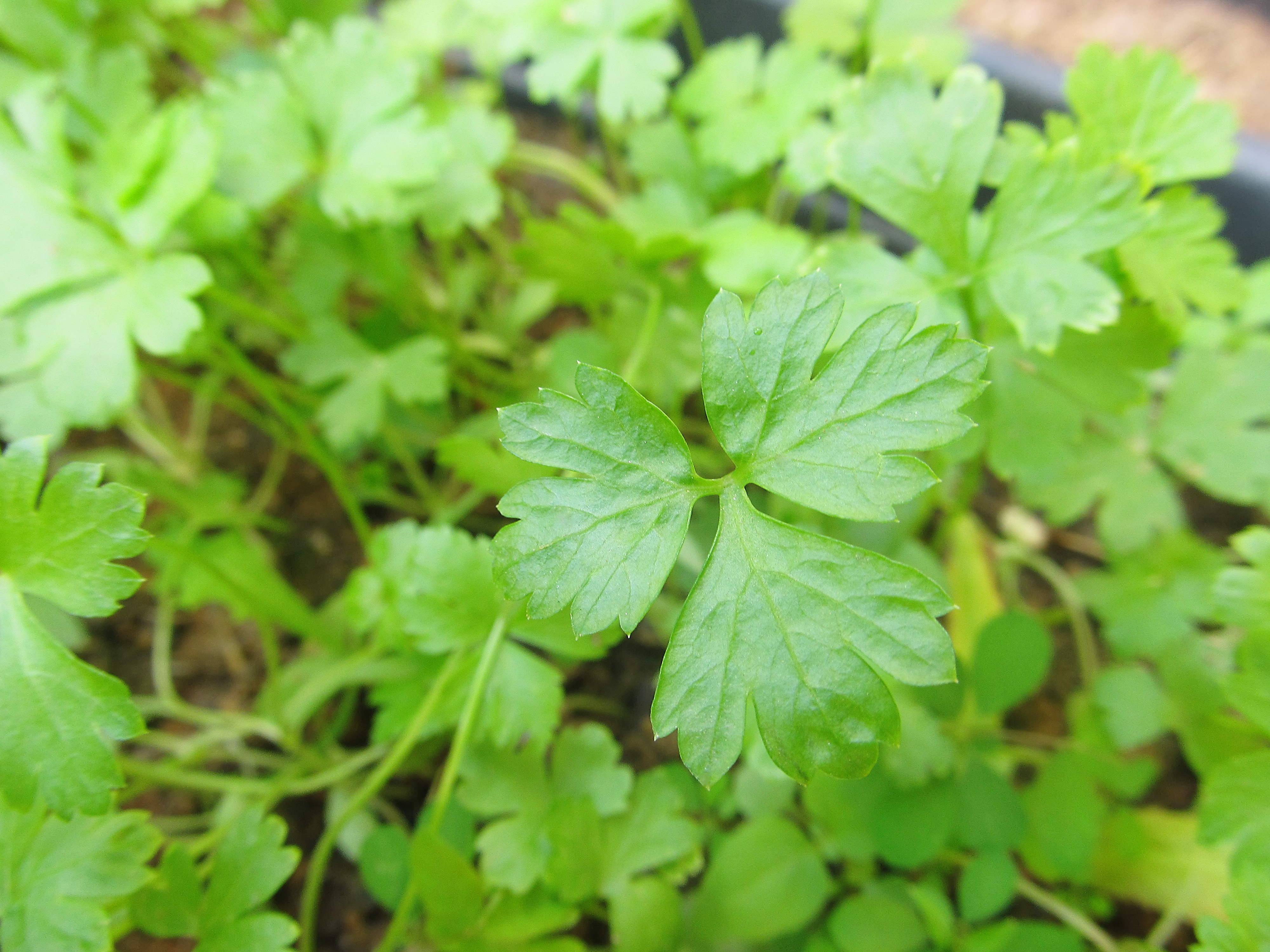 Macro photo of petroselinum crispum